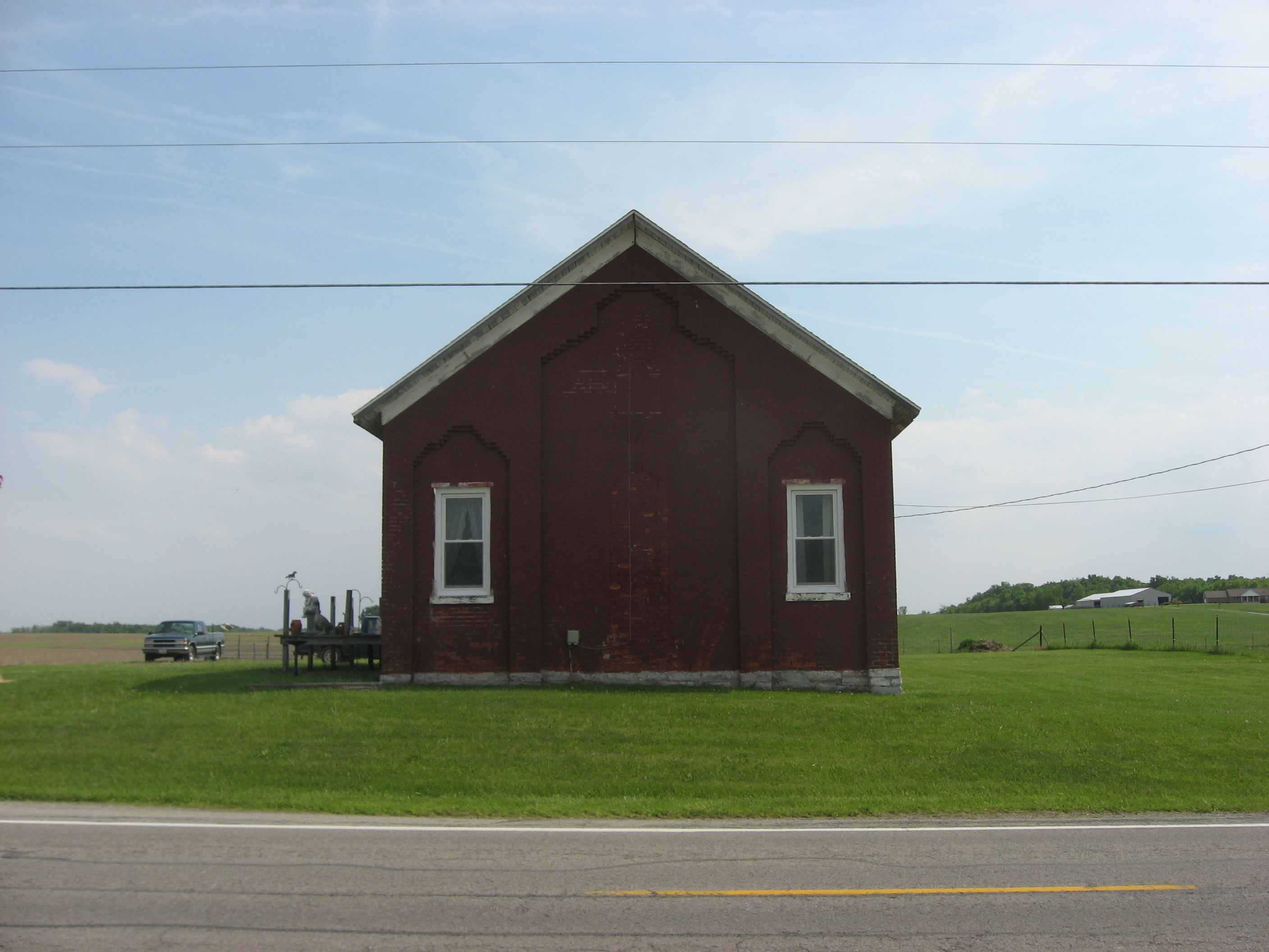 Former Union Township School #6 (now a house), located along State Route 67 in eastern Union Township, Auglaize County, Ohio, United States.